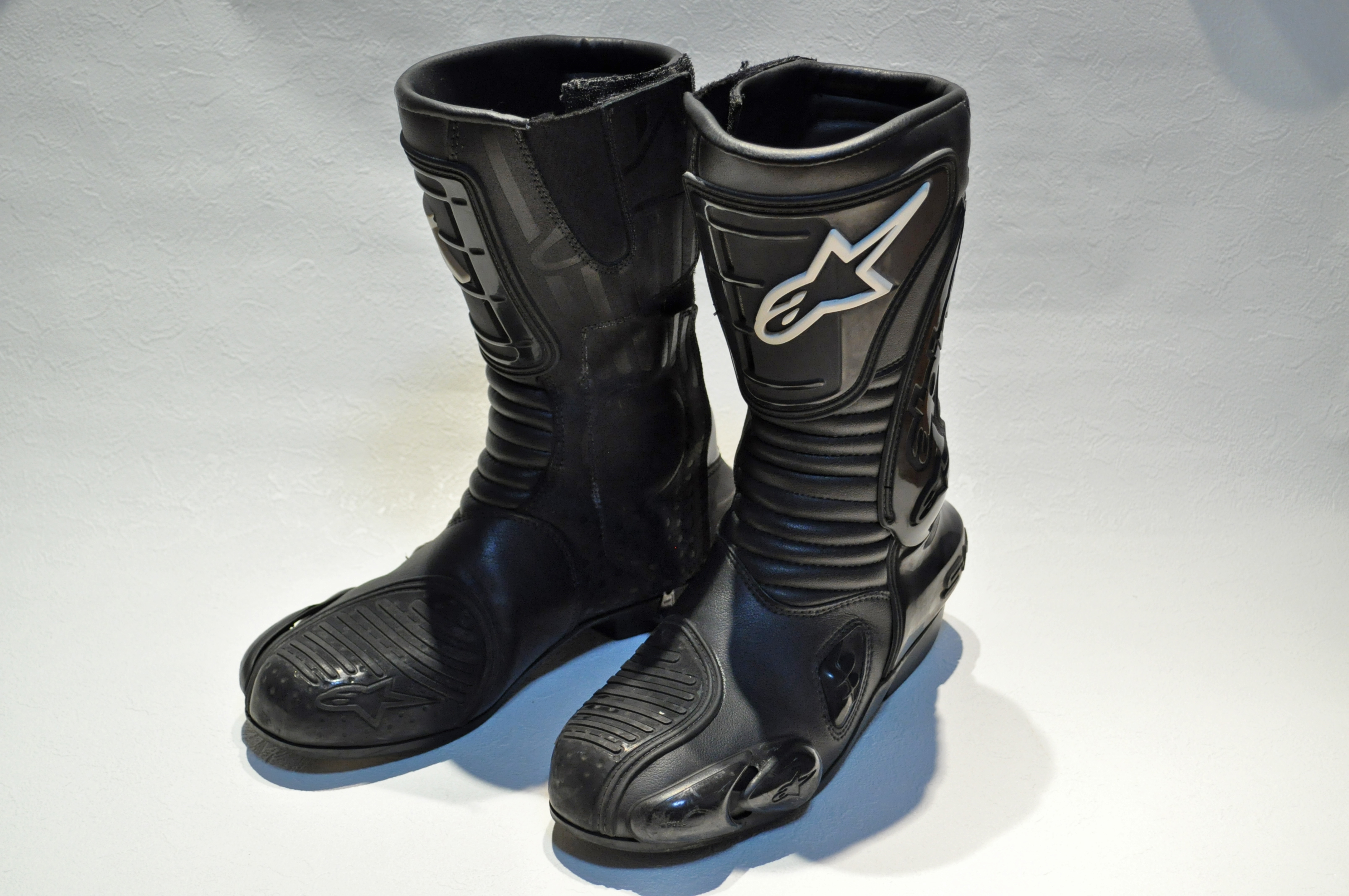 Alpinestars S-MX3 Motorcycle Boots